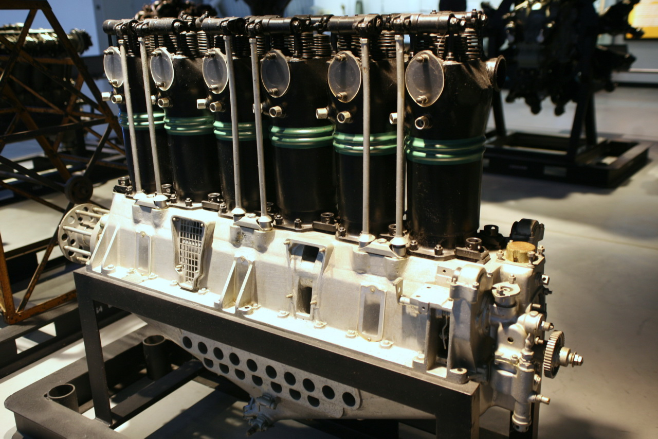 Benz & Cie of Mannheim, Germany, manufactured nearly 6,500 Benz BZ 4S engines between 1914 and 1918. The engine followed the usual German practice of having a separate water-cooled cylinder bolted to the crank case by long studs. The studs passed through the crank chamber top half and secured the crank shaft bearings between the top and bottom halves of the crank case. The BZ 4S powered various German reconnaissance, bomber, and infantry patrol aircraft, including the Ago C.II, C.IV, and C.VII; A.E.G. J.I and J.II; Albatros J.I and C.VII; D.F.W. C.V; Halberstadt C.V; and Junkers J.I.